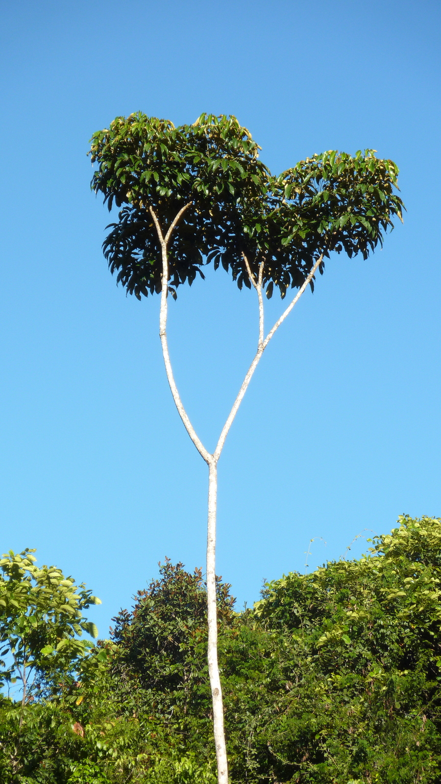 Schefflera morototoni (Aubl.) Maguire, Steyerm. & Frodin